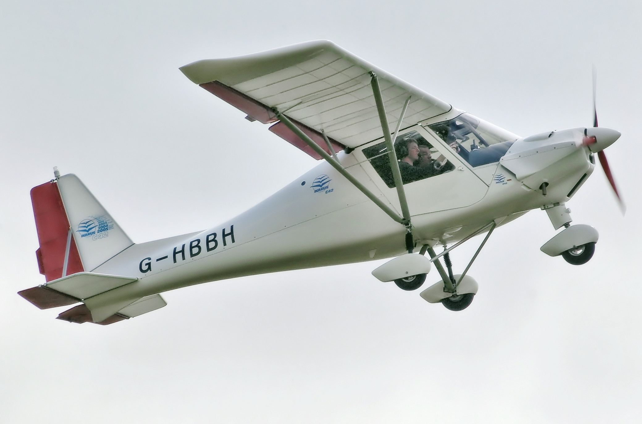 Ikarus C42 FB100 (G-HBBH) taking off at Kemble Airport, Wiltshire, England.